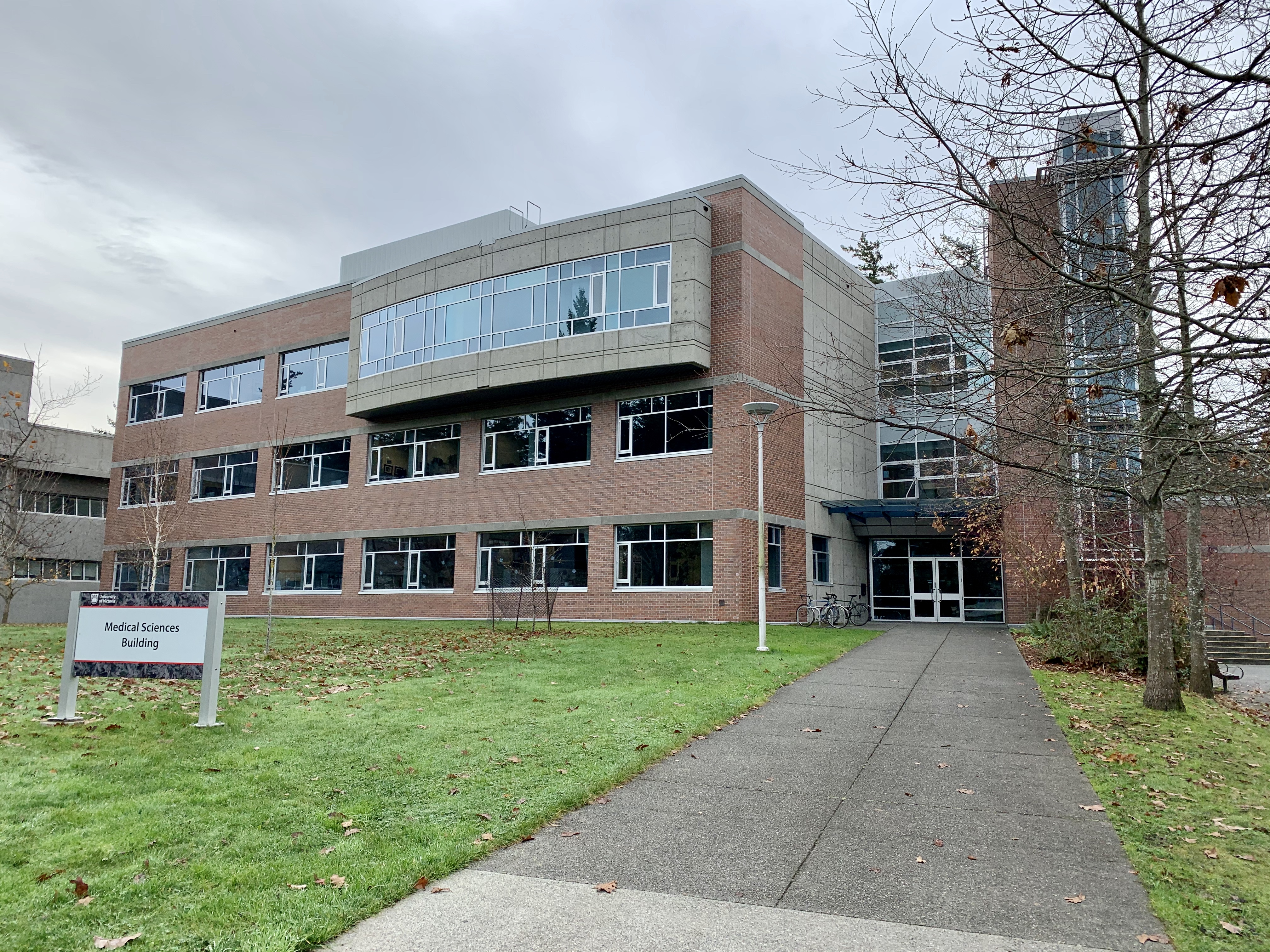 The exterior of the Medical Sciences Building at the University of Victoria.